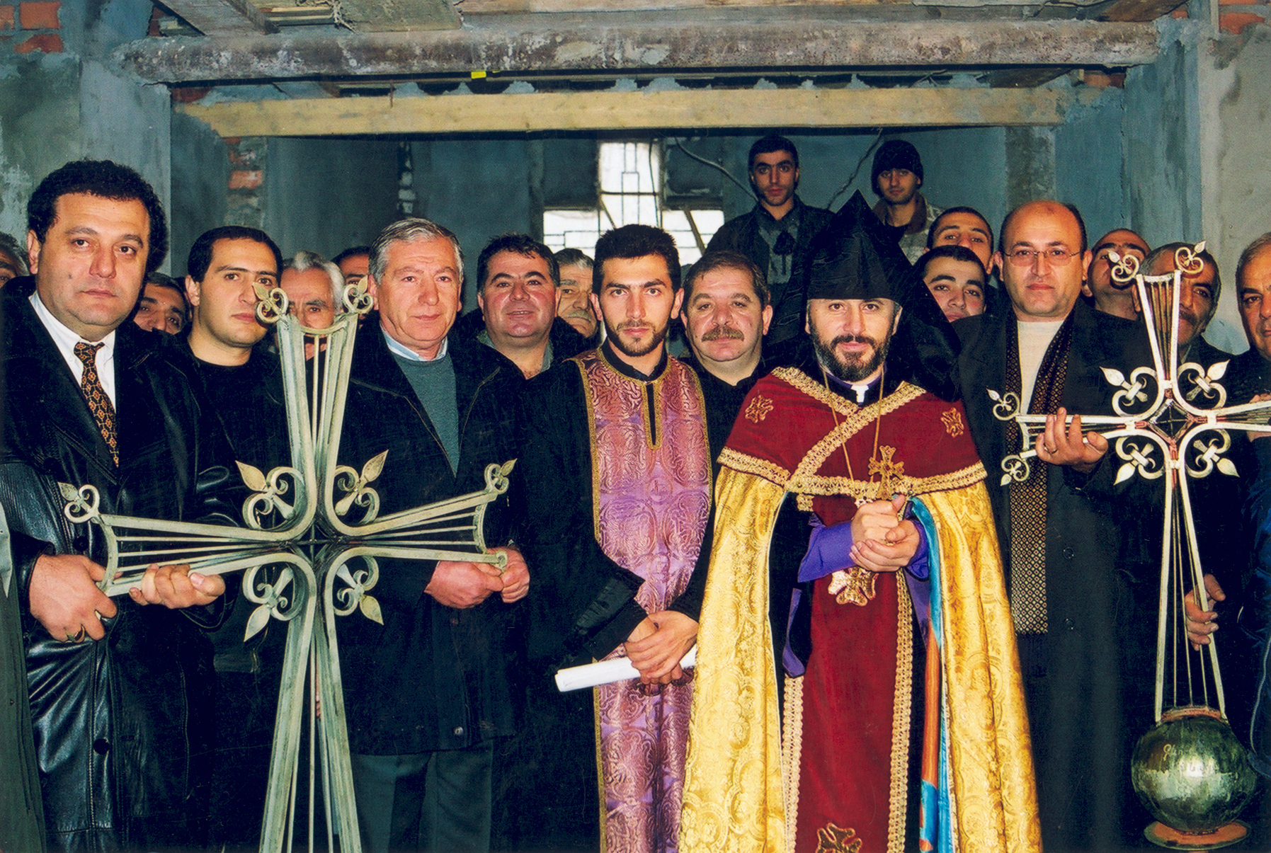 Consecration of the crosses in Sourb Gevorg Armernian church in Volgograd